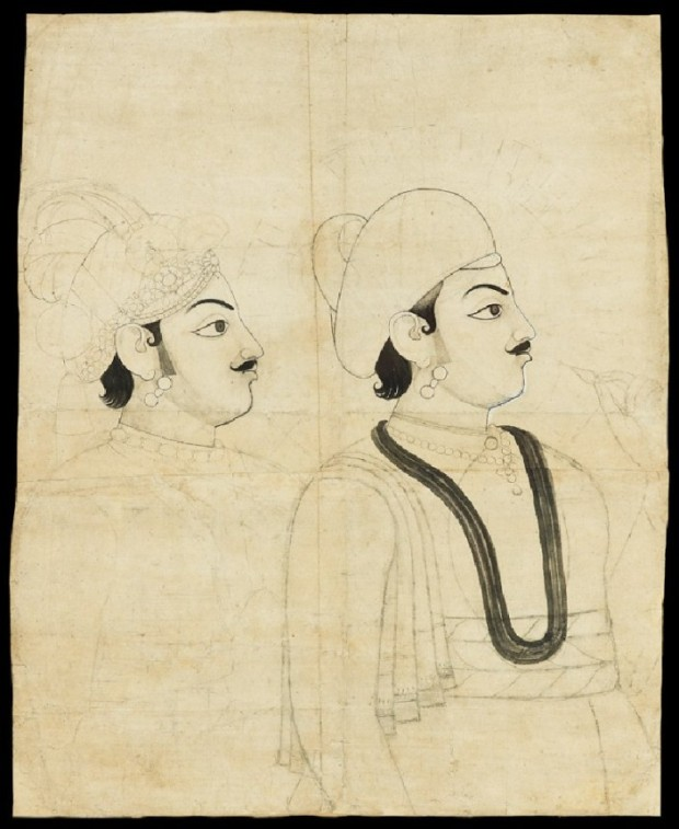 Sahib Ram. Maharaja Pratap Singh, Jaipur. ca. 1790. Ashmolean Museum, University of Oxford